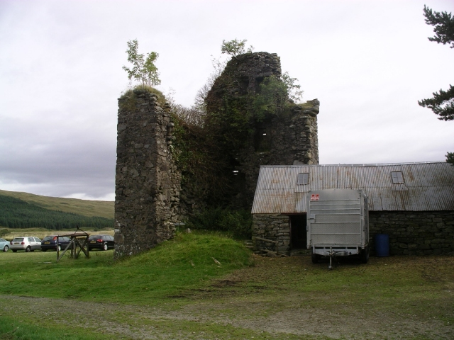 Achallader Farm Tower. This "tower" is all that remains of an old manor house.